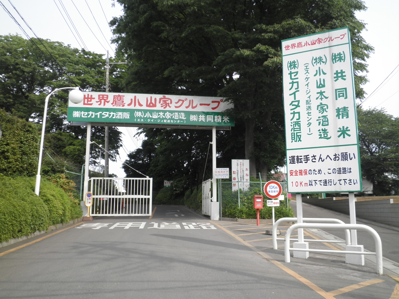 Koyama Honke Syuzo Co.,Ltd. (Sekaitaka Koyamaya Group. Japanese brewer) Headquarters in Saitama, Japan.